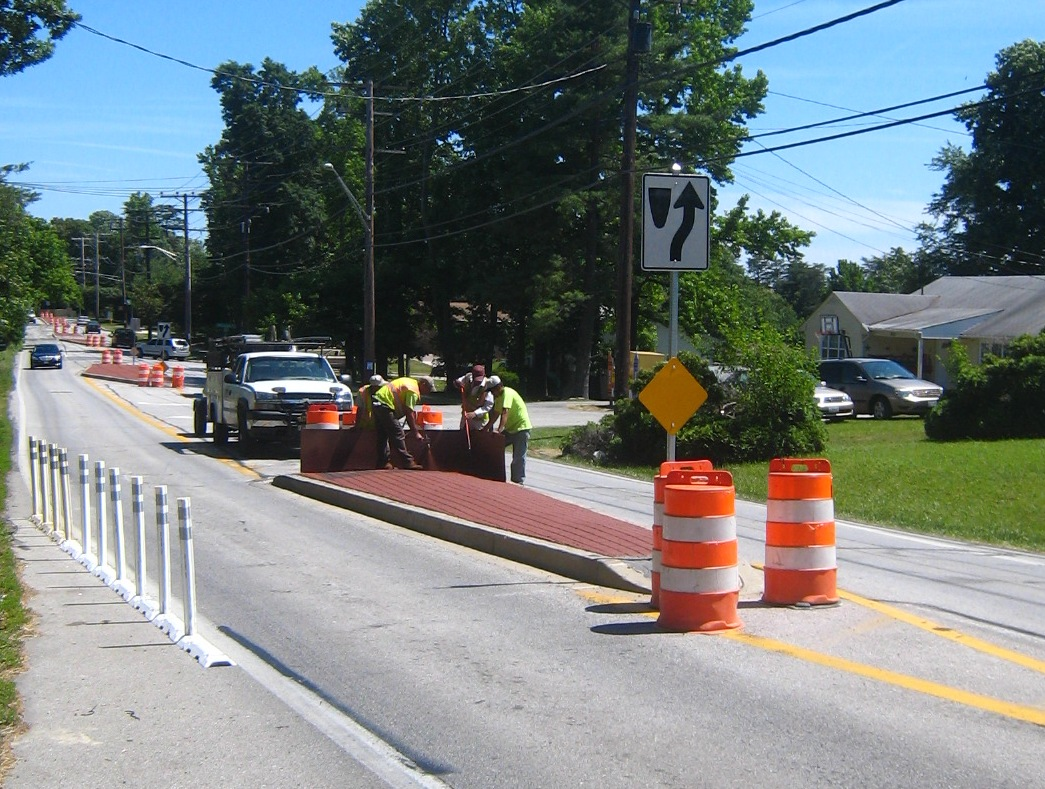 Traffic calming island maintenance, Whiskey Bottom Road looking towards Old Lantern Way, with Star Learning Center on the right, North Laurel, Howard County, Maryland